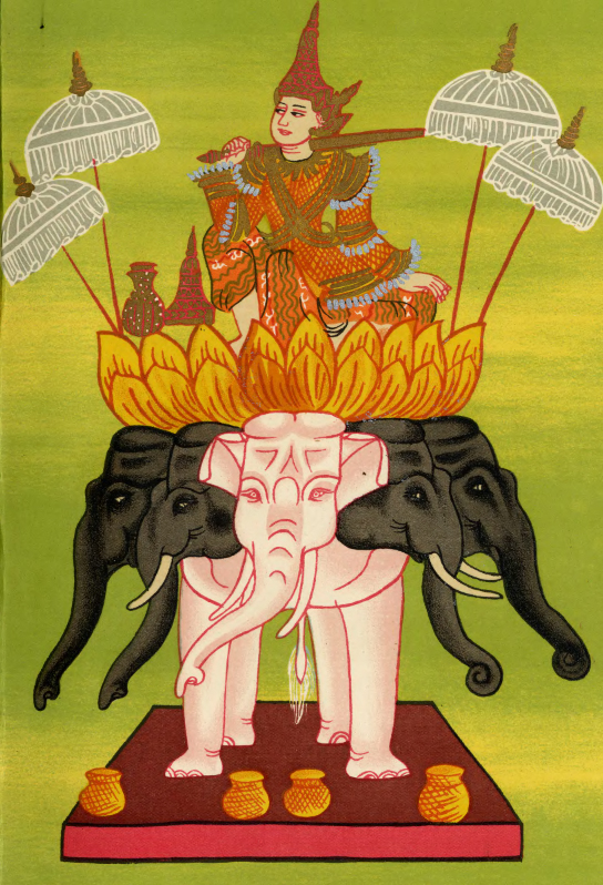 Ngazishin nat (spirit), th in the official pantheon of Burmese nats